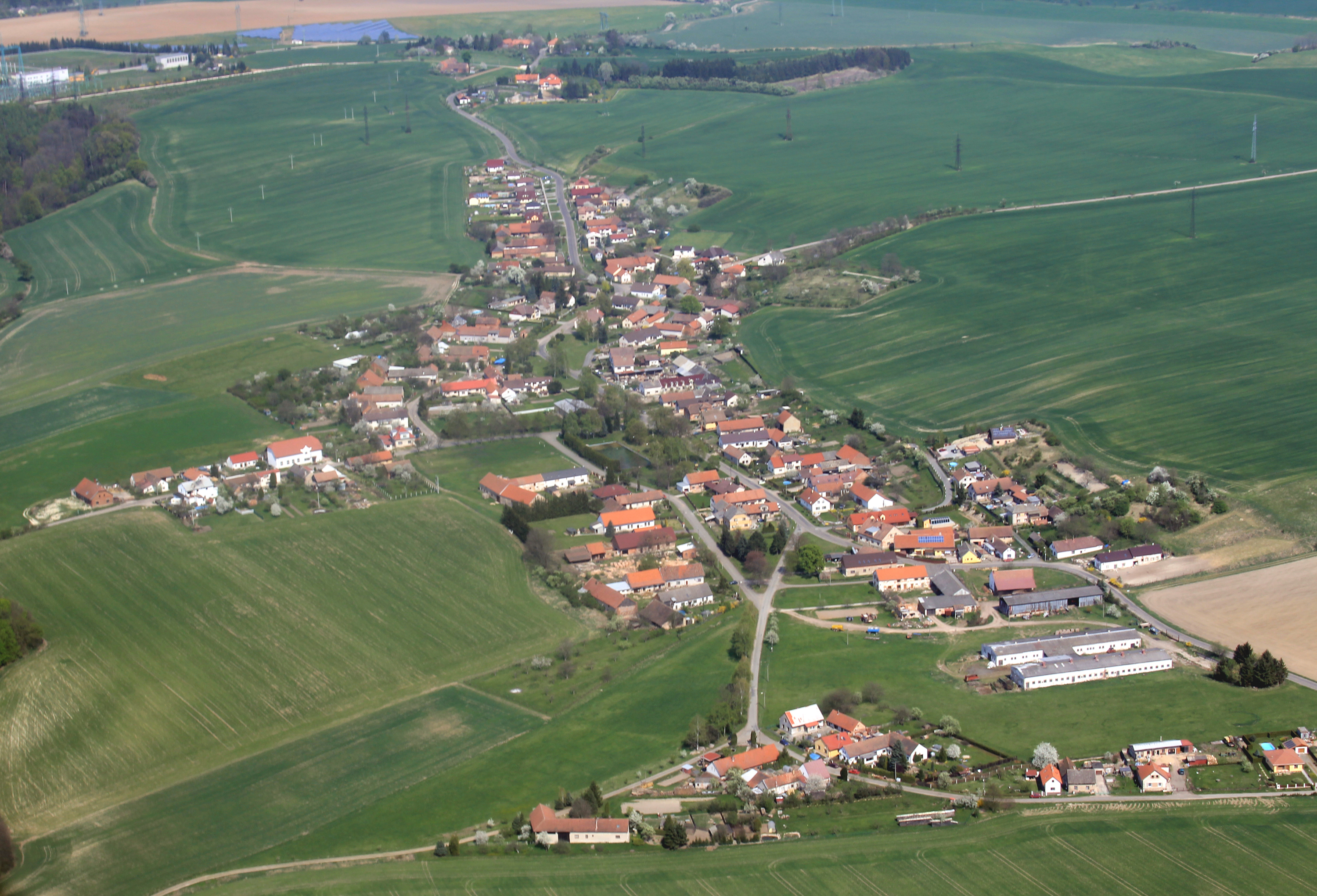 Village Habřina from air, eastern Bohemia, Czech Republic